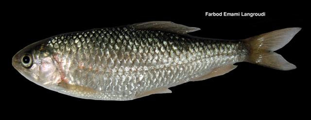 Cyprinion macrostomum from Iranian waters. Photo by Farbod Emami Langroudi.